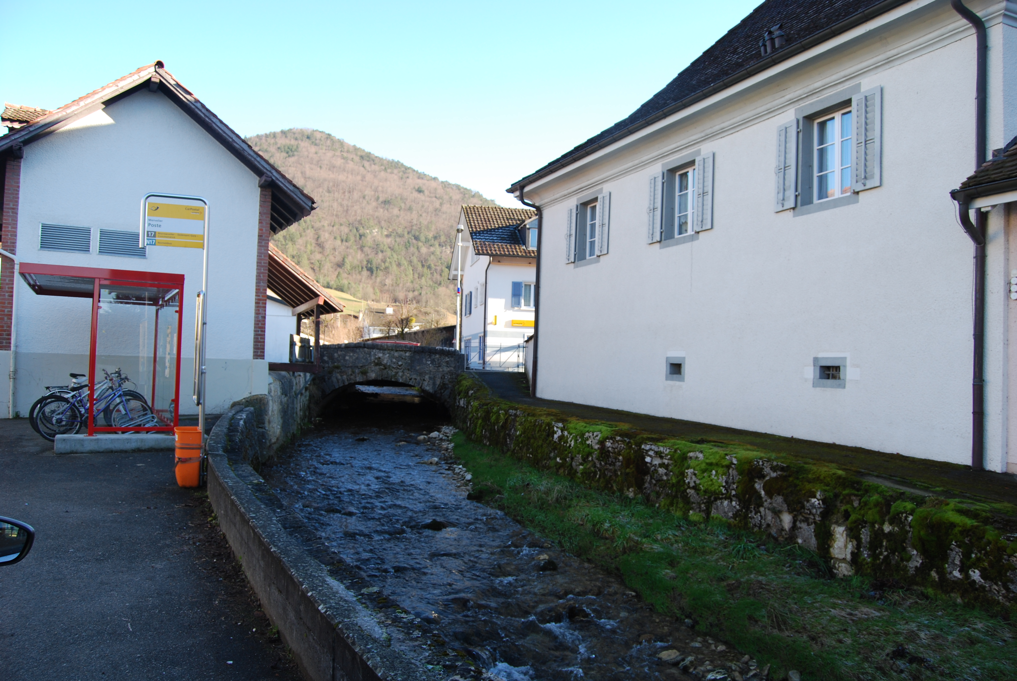 River Scheulte in the center of Mervelier, canton of Jura, Switzerland